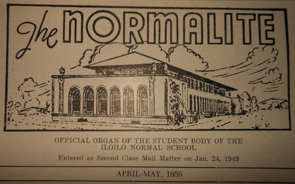 The nameplate of The Normalite, the official organ of the Iloilo Normal School, now West Visayas State University. This publication is the forerunner of Forum-Dimensions serving as the University's official publication.